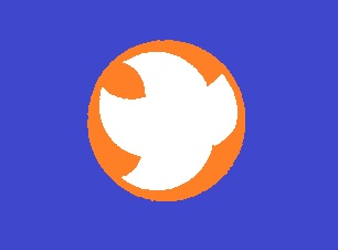 Flag of Nagiso Nagano